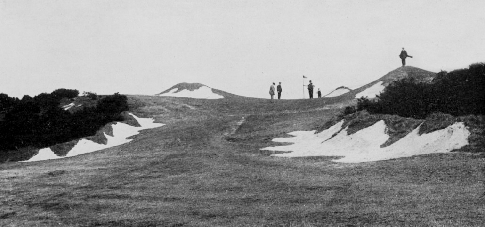 Hole 2 of Headingley Golf Club near Leeds, designed by Alister MacKenzie